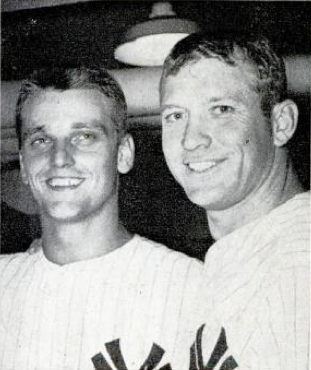 The "M&M Boys," Mickey Mantle (right) and Roger Maris in the historic 1961 season. Photo from a 1961 issue of Baseball Digest.